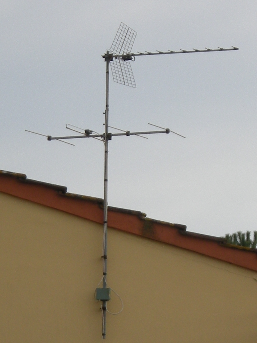 Yagi-Uda antennas for analog (and digital) TV signal reception; bottom aerial for very high frequencies (30 – 300 MHz); top aerial for ultra high frequencies (300 MHz – 3,000 MHz)